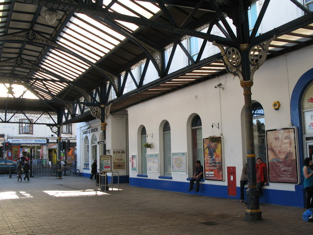 The forecourt, Brighton Station